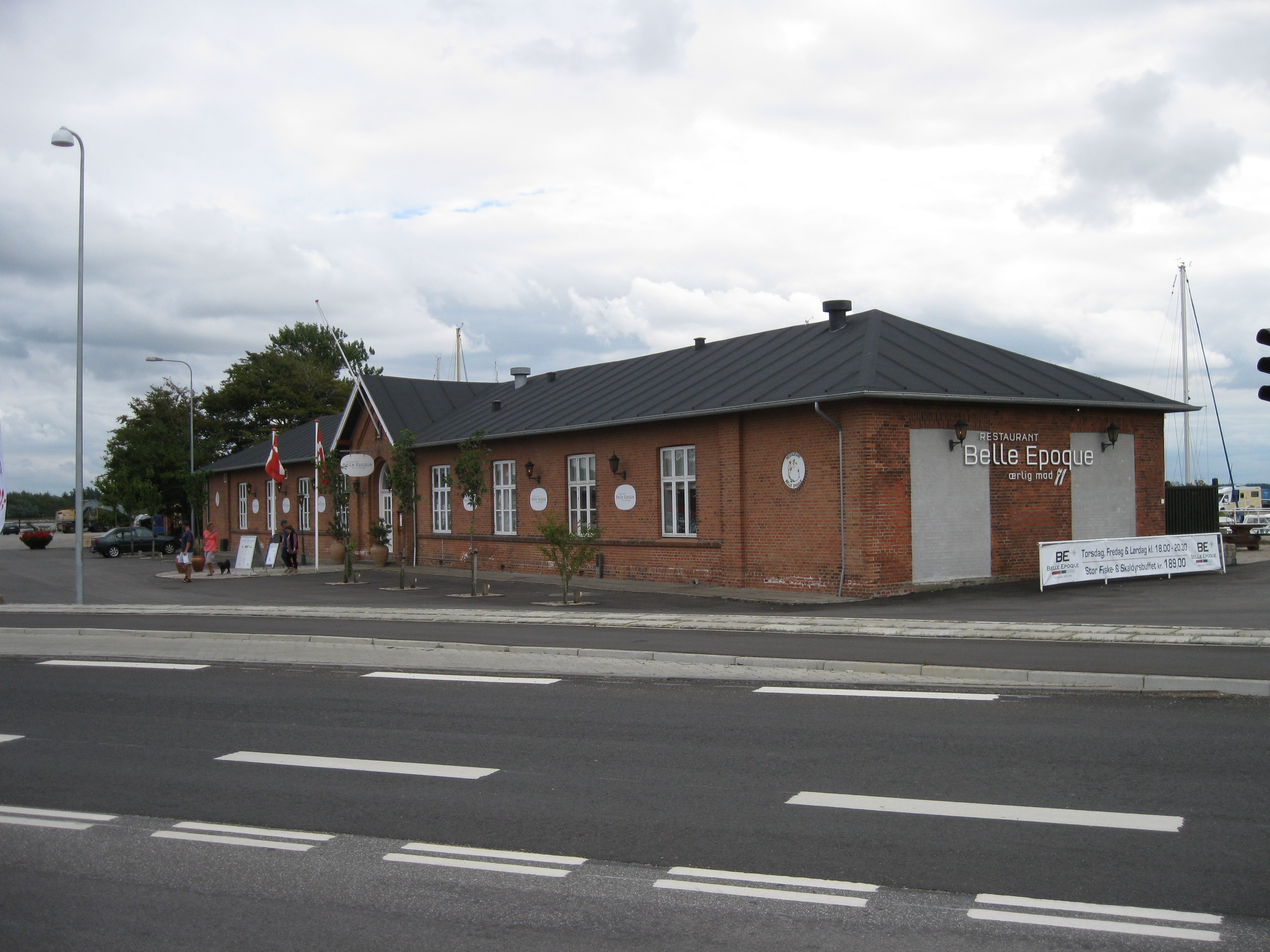 Disused train station in Nykøbing Mors, Denmark